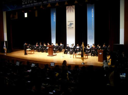 hallym